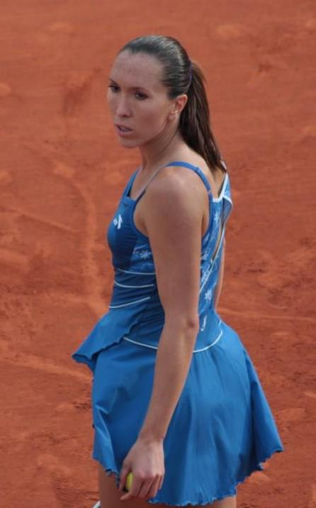 Jelena Janković at 2009 Roland Garros, Paris, France